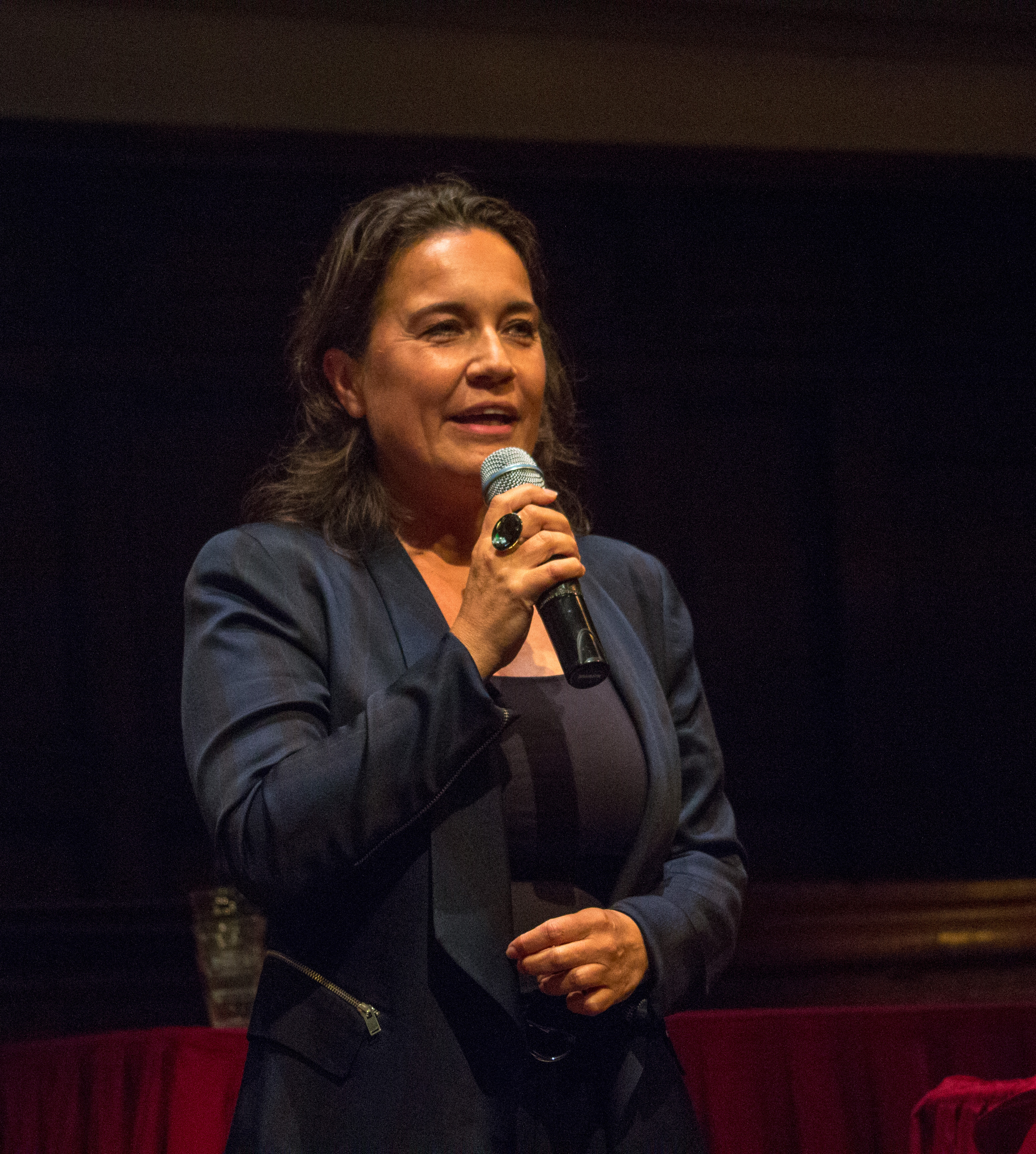 Dione de Graaff at the fundraising party for the second volume of the book "1001 vrouwen"